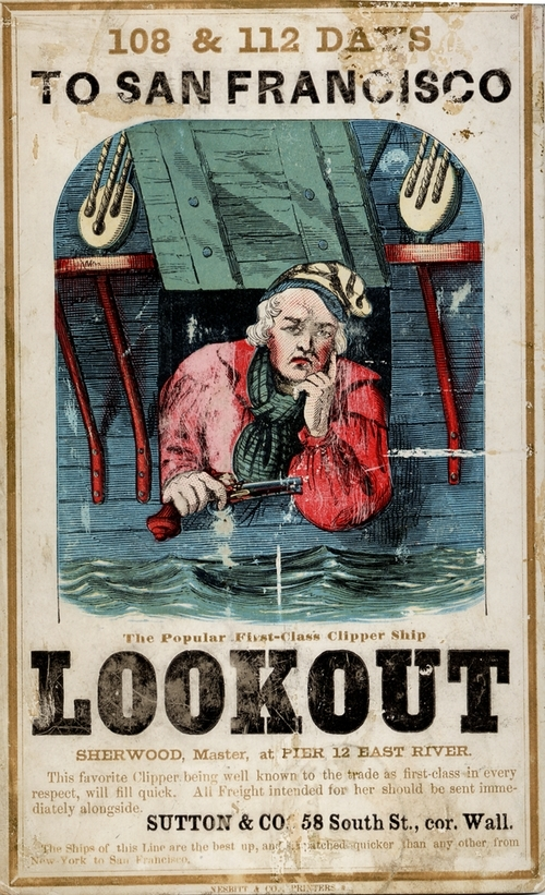 Sailing card for the clipper ship Lookout.